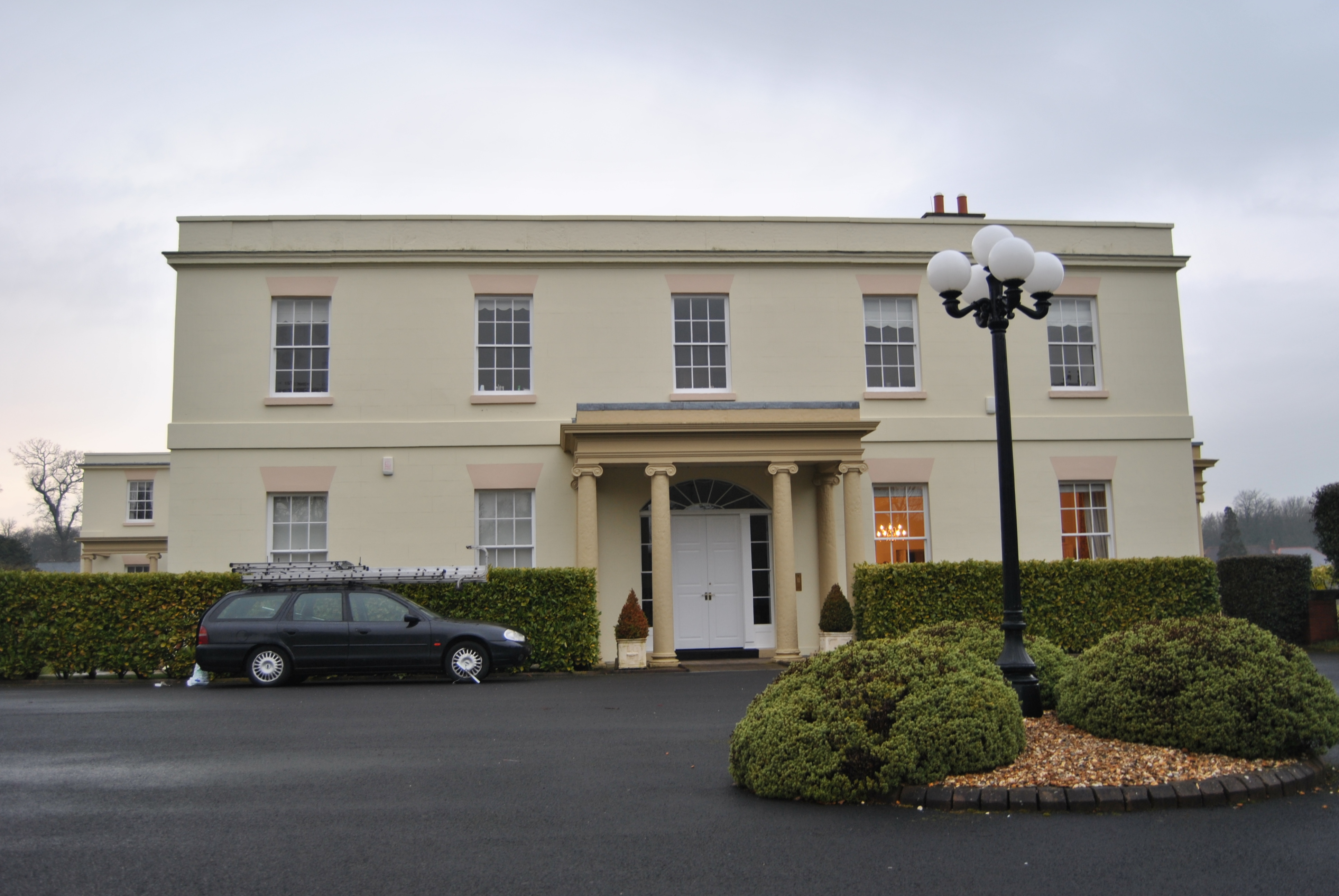 South East Wing at Rufford New Hall, taken 2010.